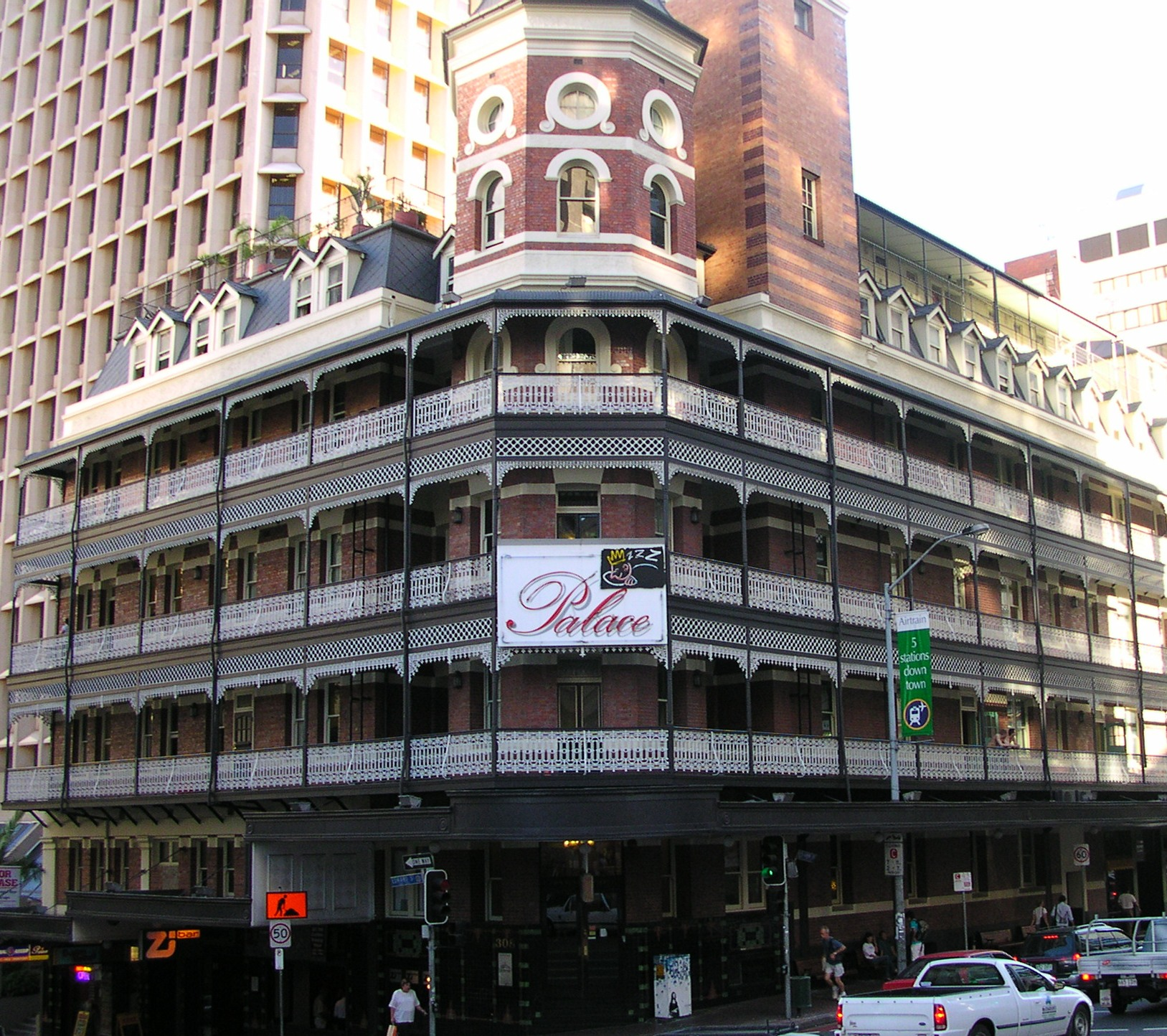 The heritage Palace building in Brisbane, Queensland.